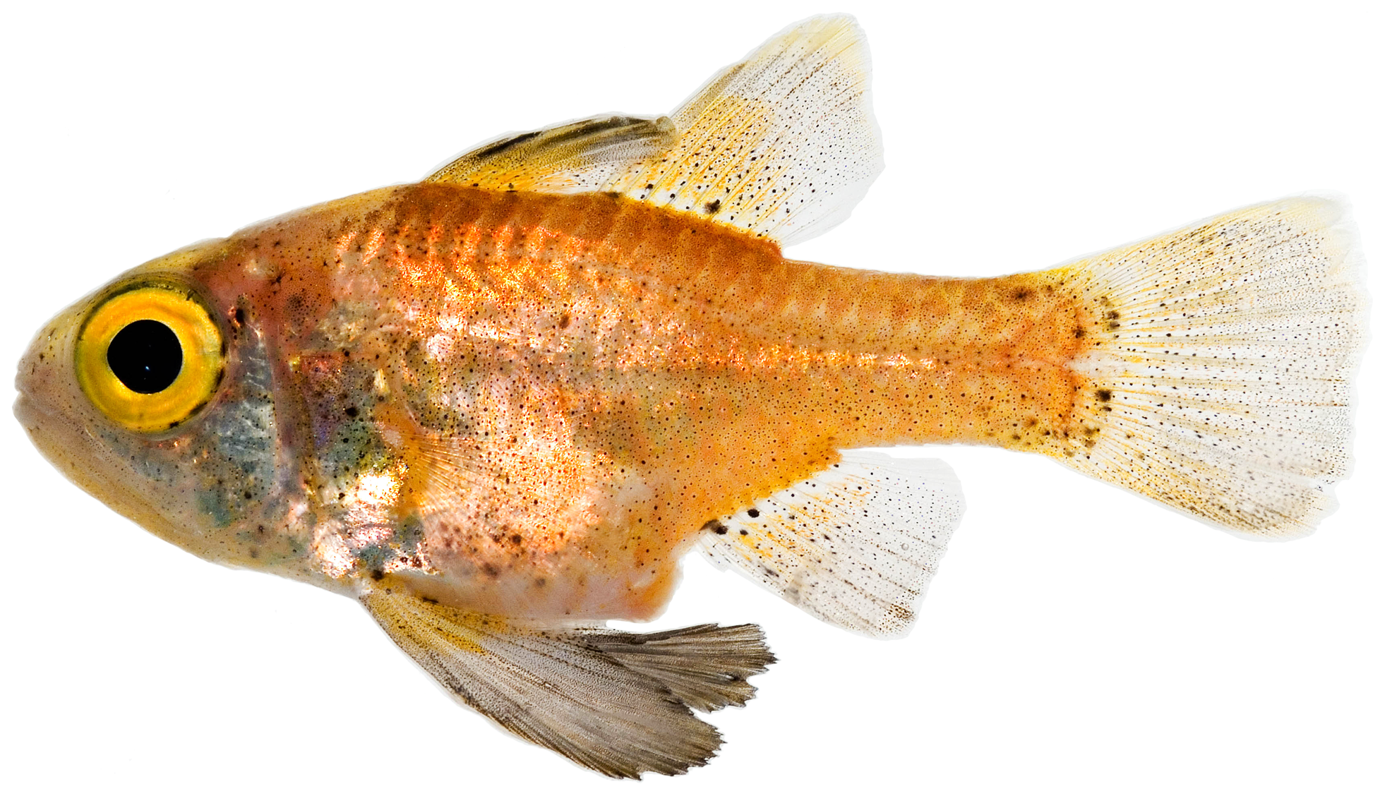 Astrapogon puncticulatus (Poey, 1867) —blackfin cardinalfish, 40.0 mm SL. Photo by JT Williams.